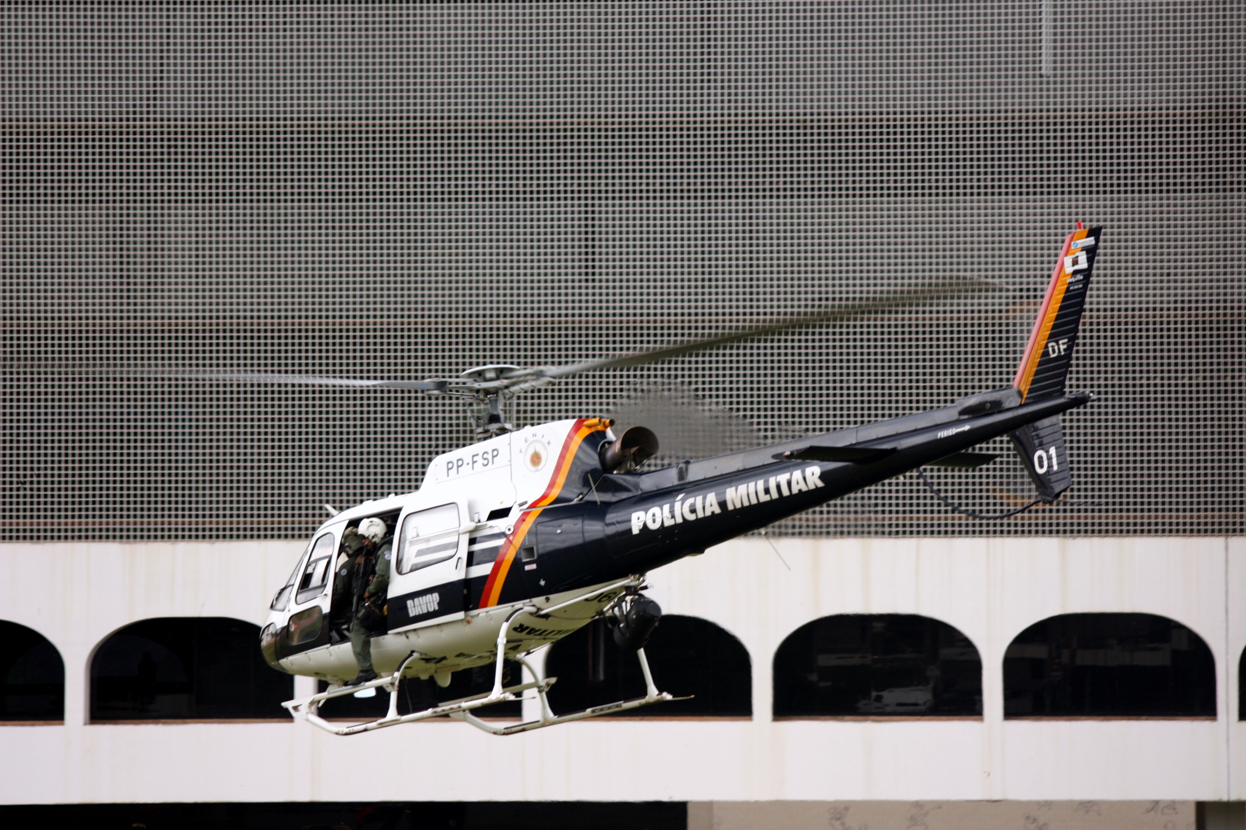 Distrito Federal Military Police helicopter